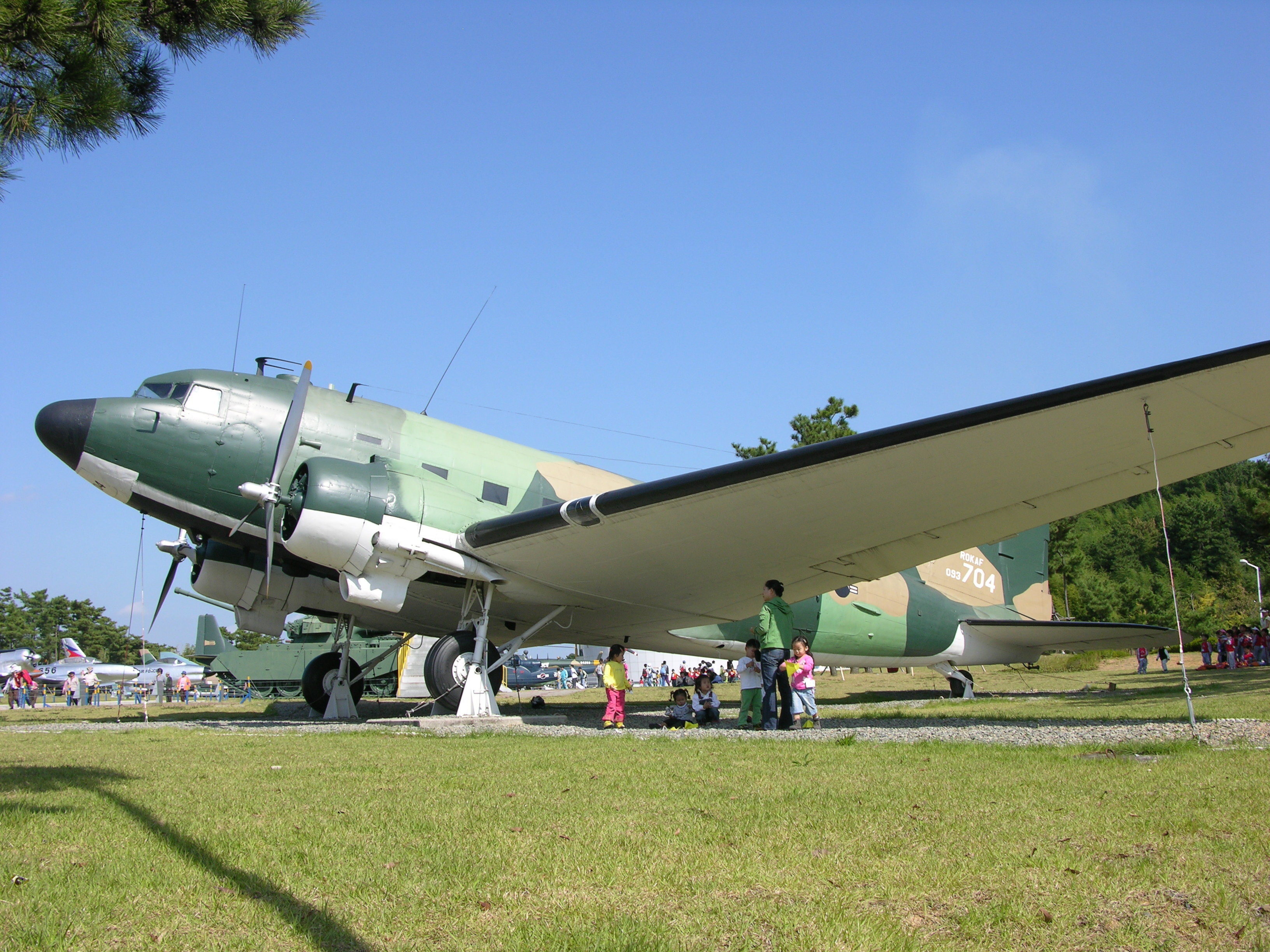 Unfortunately most of the large aircraft had people picknicking underneath them